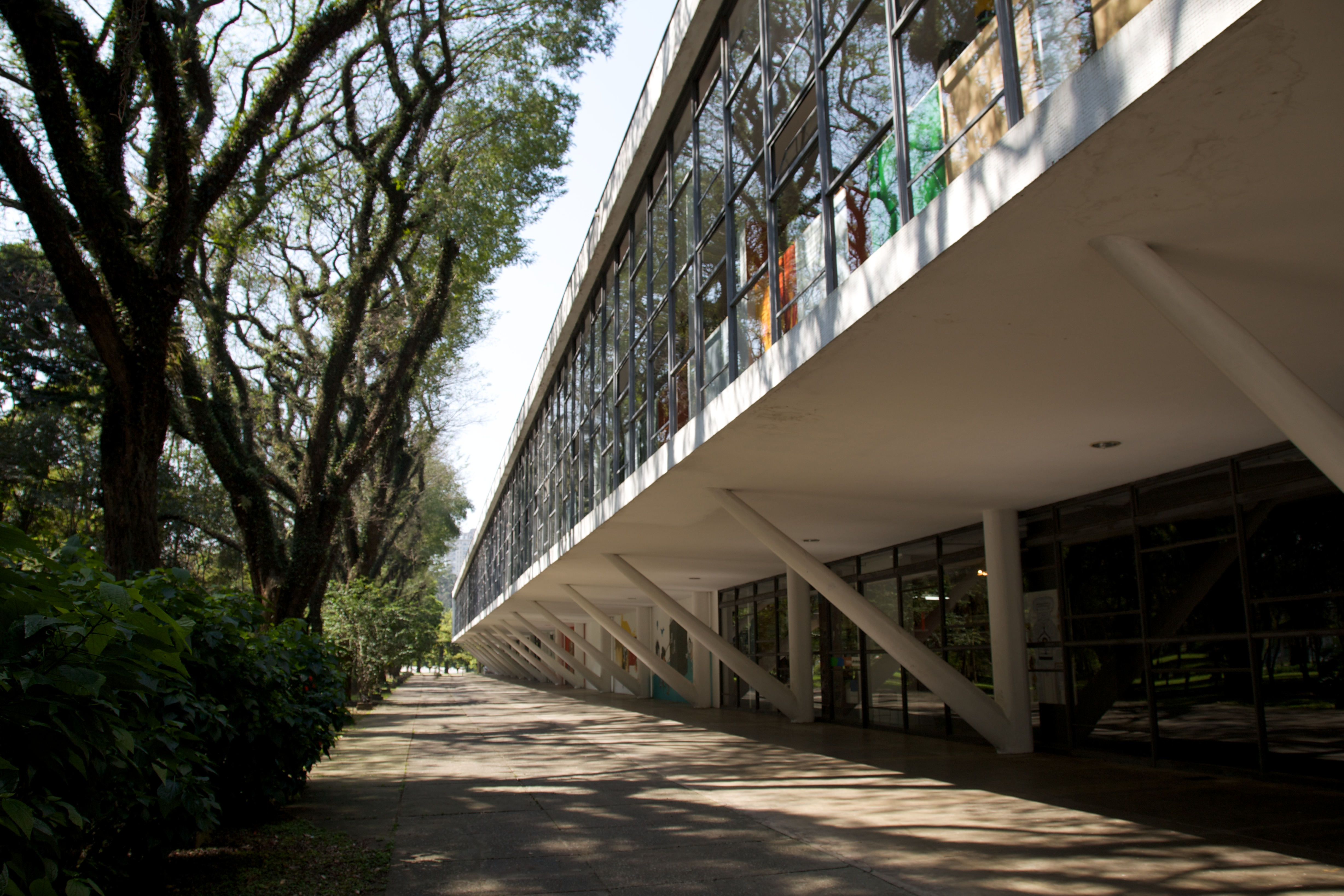 Museum Afro Brasil in Sao Paulo, SP - Brazil. Designed by Oscar Niemeyer